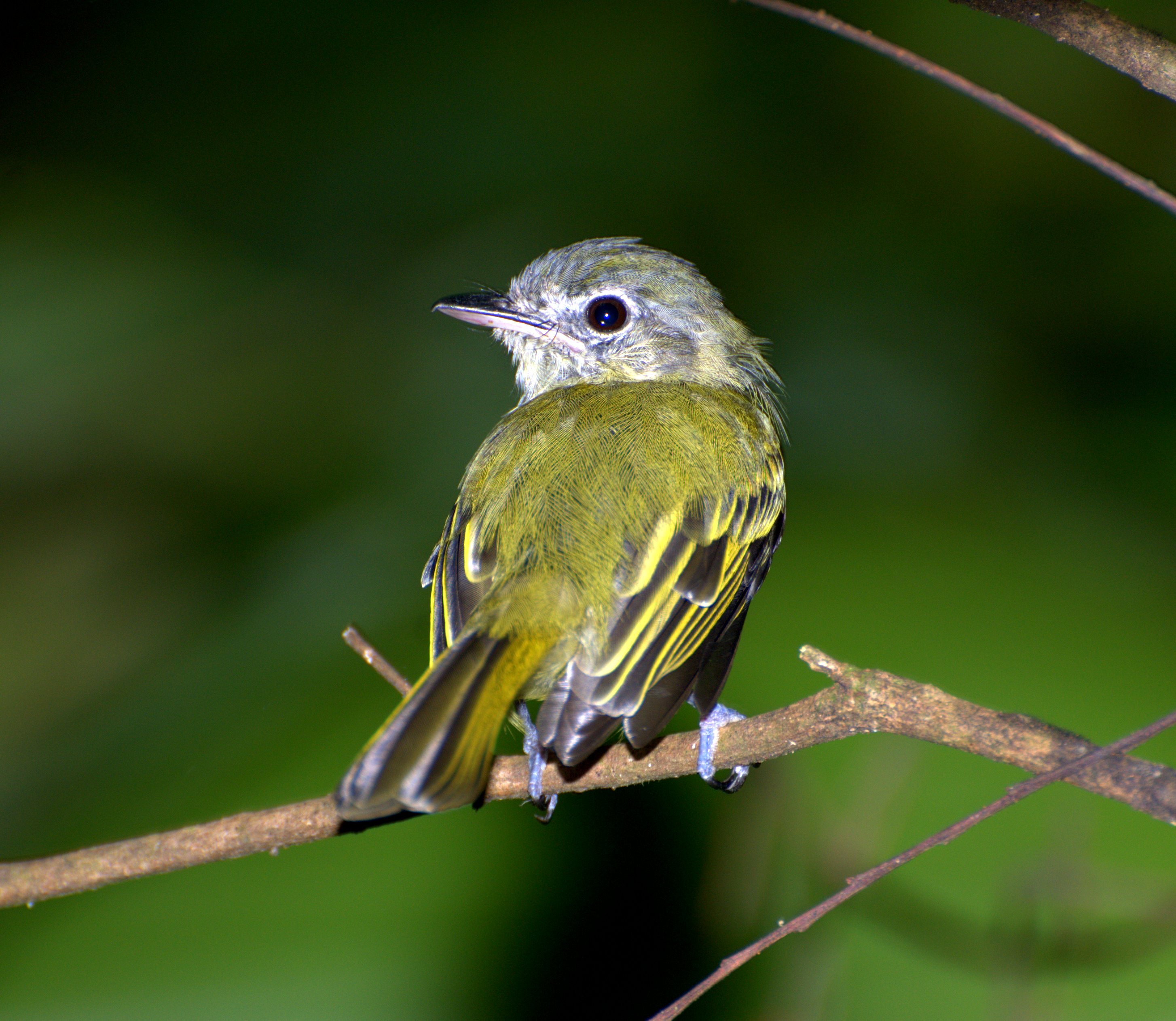 A Yellow-olive Flatbill (also known as Yellow-olive Flycatcher) in Parque Estadual da Serra da Cantareira, Sao Paulo, Brazil.